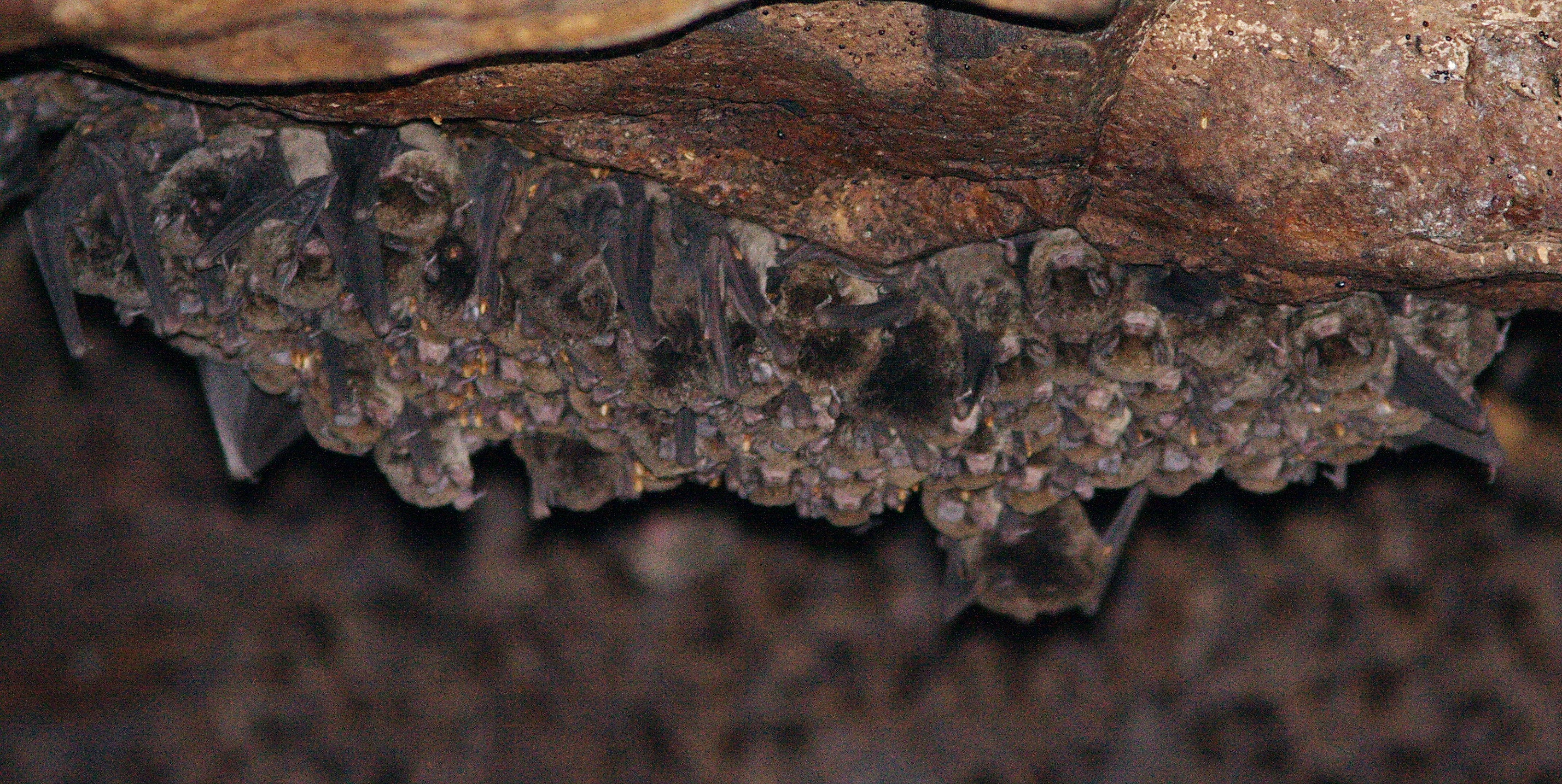 Roosting little bent-wing bats, Miniopterus australis, wild animals